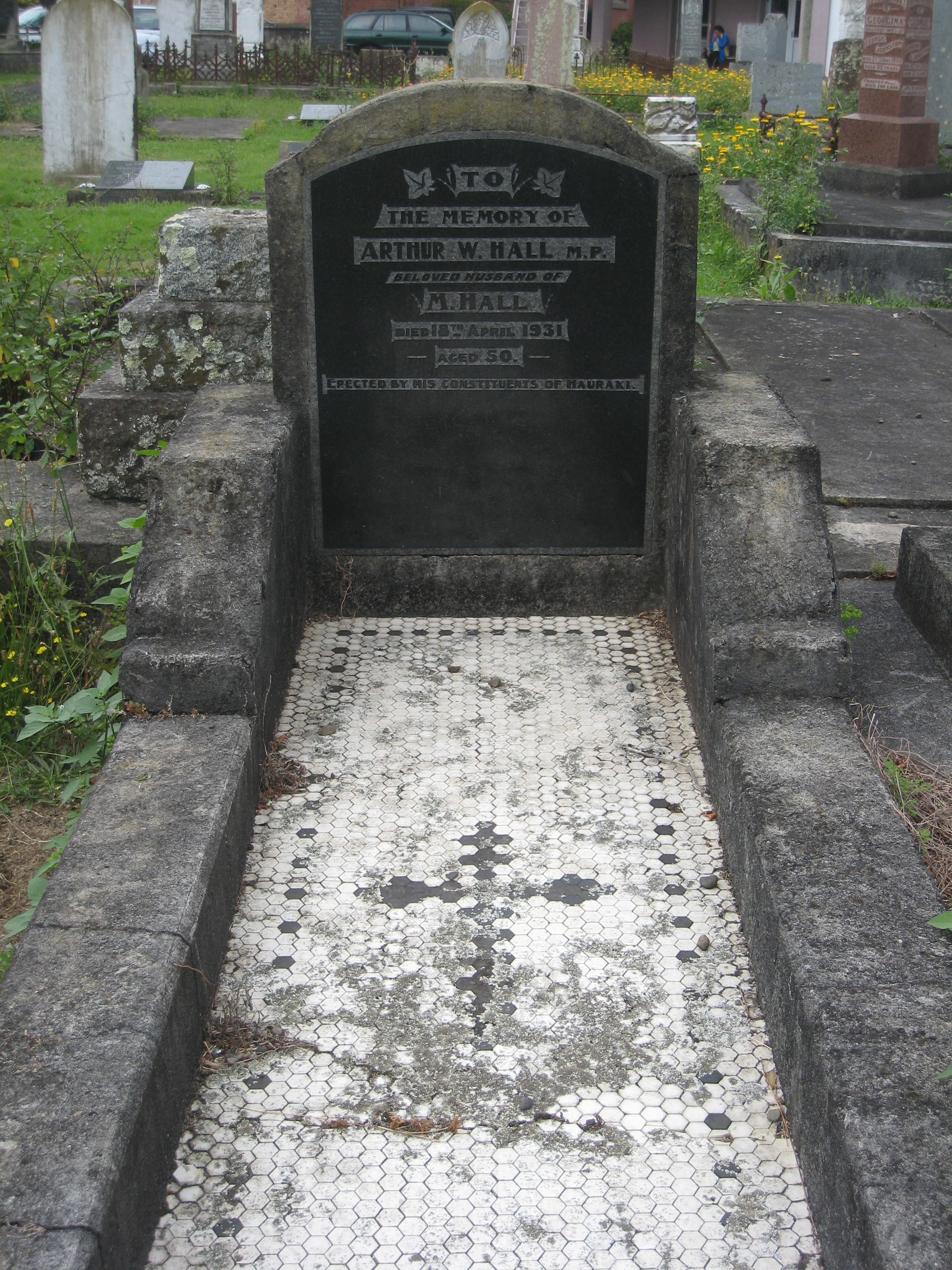 Gravestone of Arthur W. Hall (1880-1931), MP for the Hauraki electorate. The cemetery is near Hunter's Corner, Papatoetoe, Auckland, New Zealand.